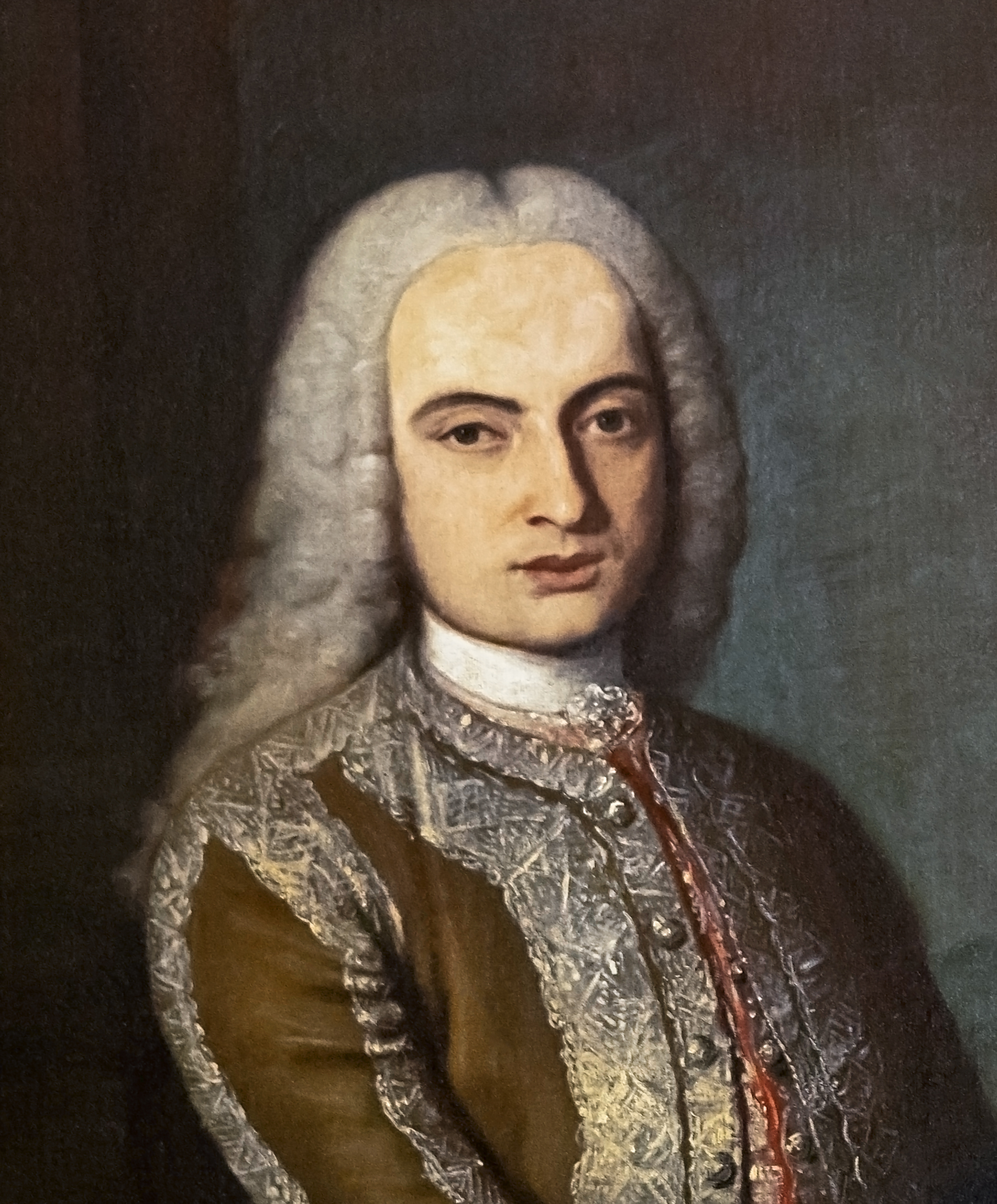 Depicted person: Gian Rinaldo Carli – Italian historian, writer and economist